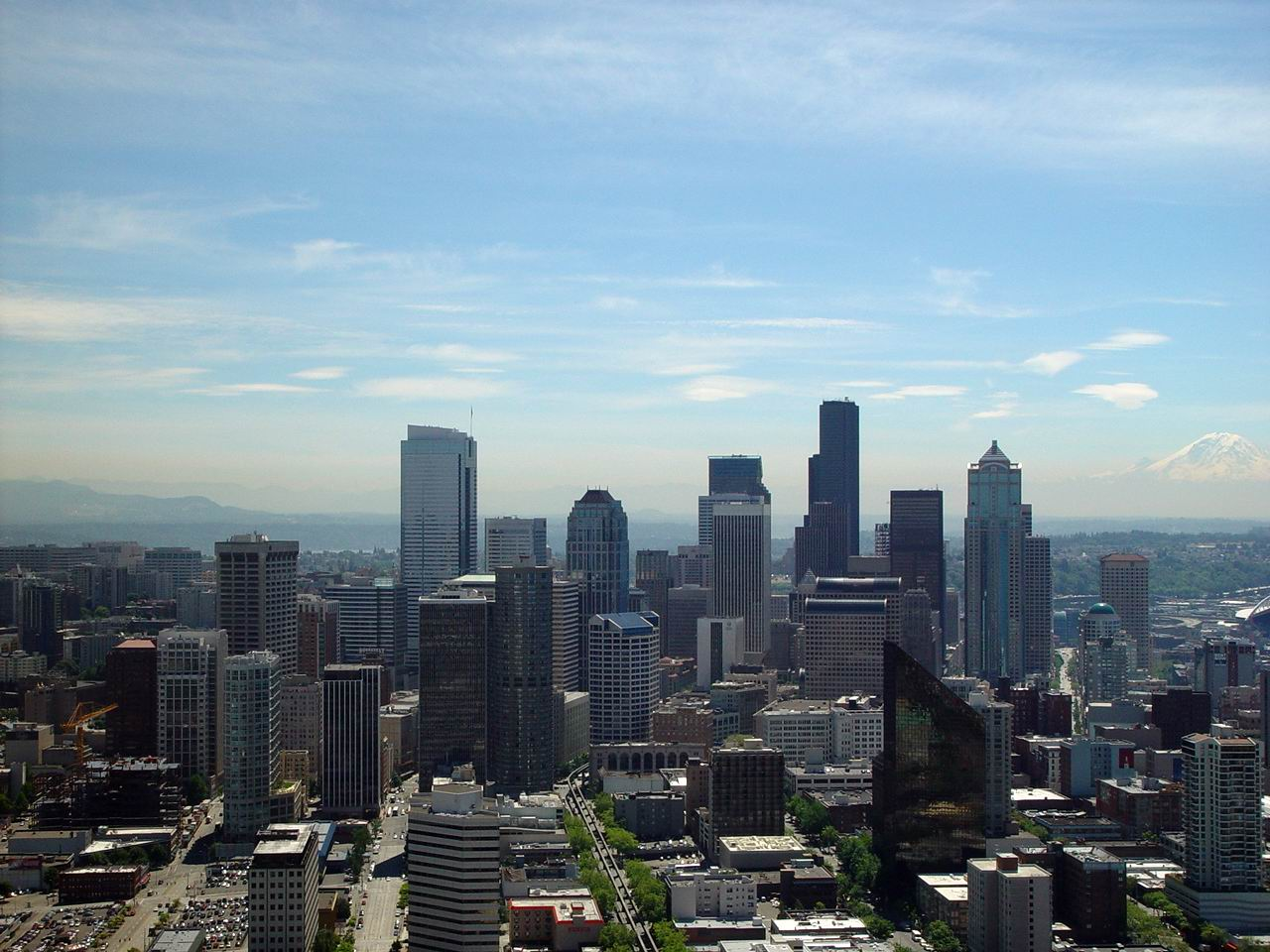 Picture of a Seattle skyline, with Mount Rainier on the right, taken by me in summer 2002.